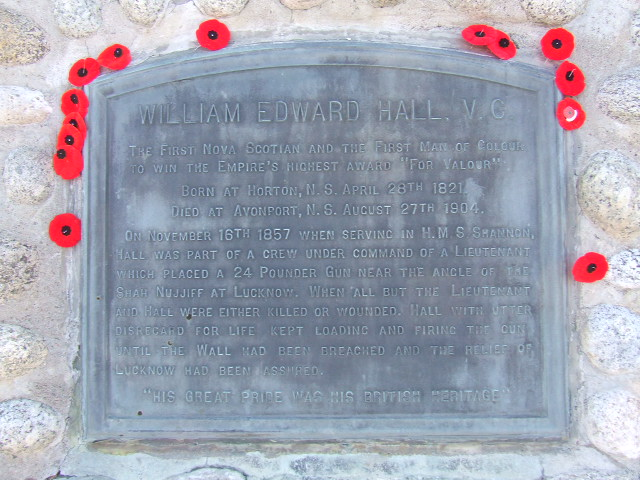 Plaque on the monument to William Hall VC at Hantsport, Nova Scotia. This plaque was installed when Hall was reburied in 1945. The year of his birth was cast in error. It should read 1827, not 1821.